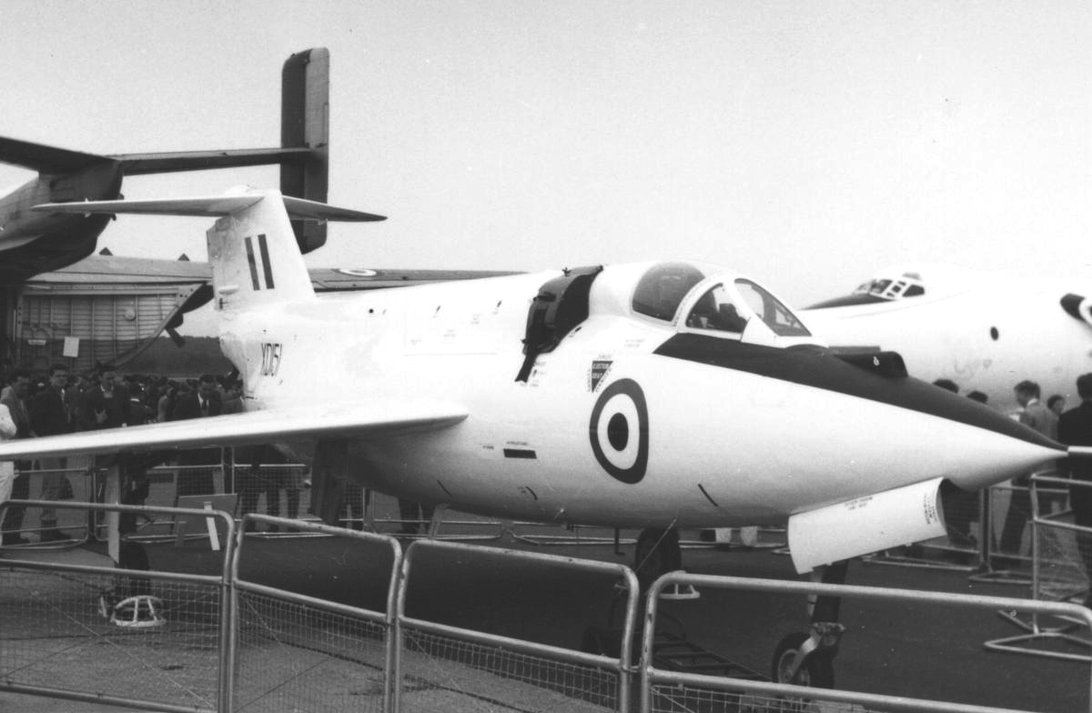 The second SR.53 XD151 exhibited at the Farnborough Air Show